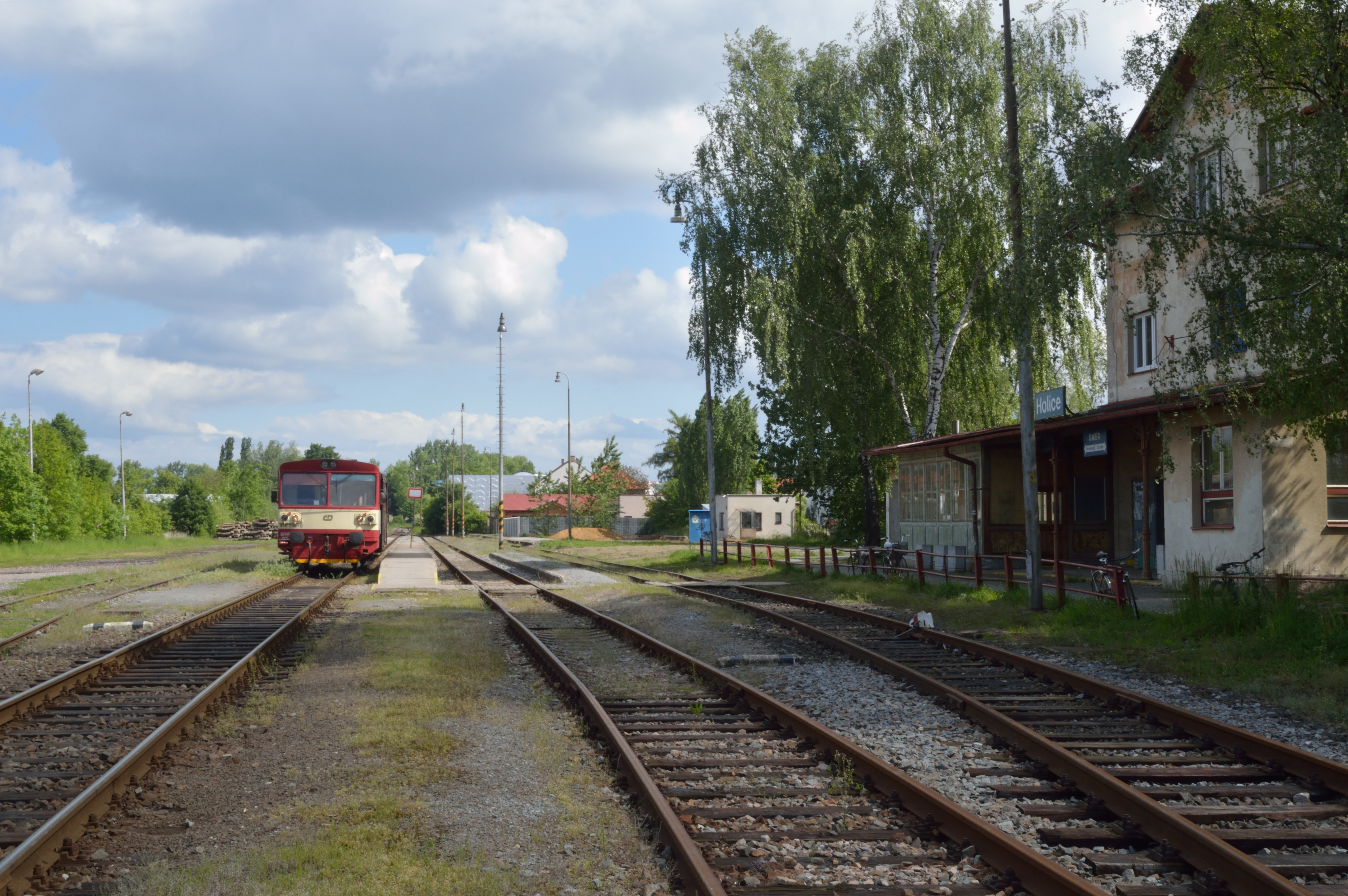 810.298 waits departure with train Os25343, 10:38 Holice to Moravany on 14 May 2014. Holice now marks the terminus on this once through line through to Borohrádek which lost its passenger services in December 2011.